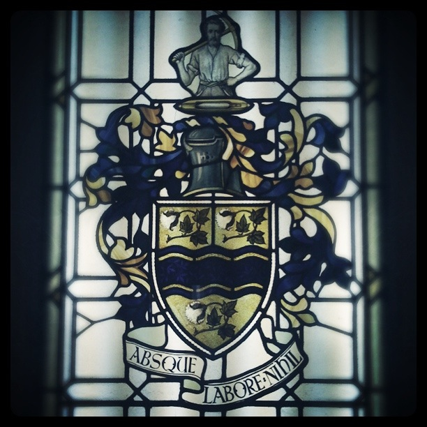 The Darwen Coat of Arms as seen from recovered stained glass windows at Royal Blackburn Hospital